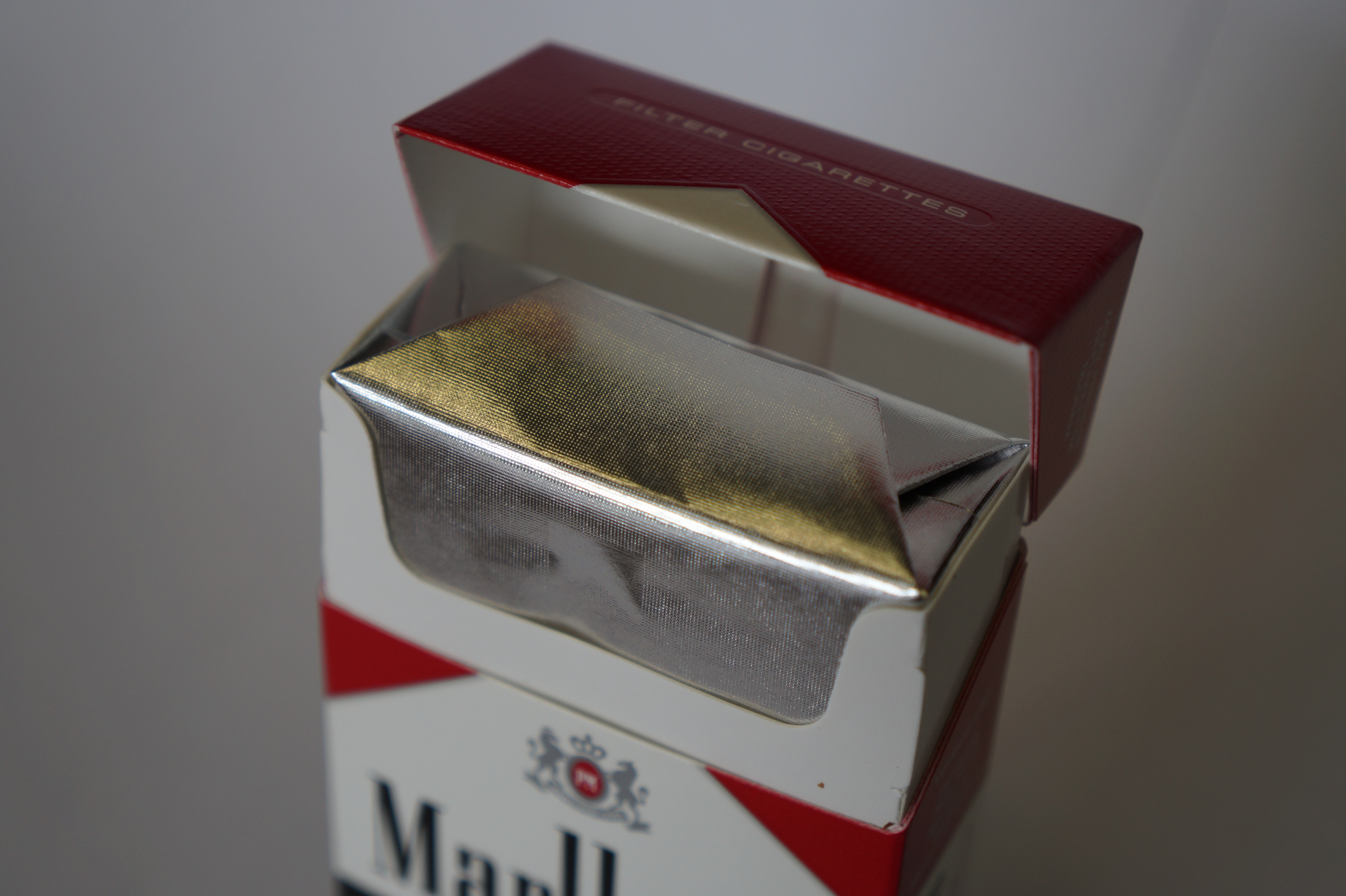 Cigarette packet foil. This photo has been released into the public domain. There are no copyrights: you can use and modify this photo without asking, and without attribution.